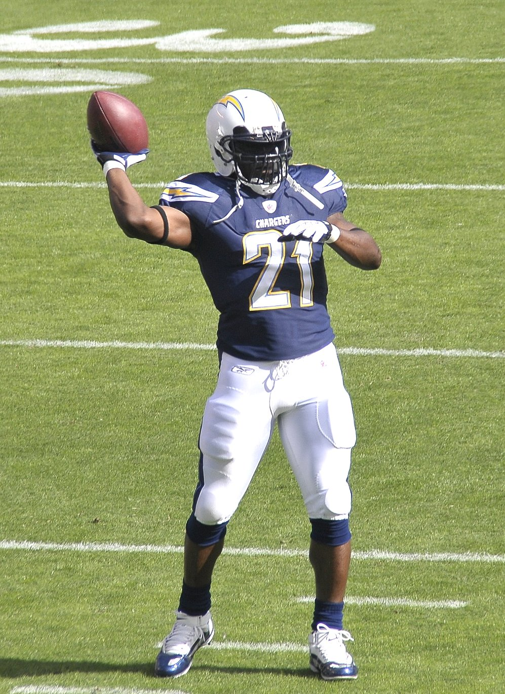 LaDainian Tomlinson tossing a football before a game in November 2008.